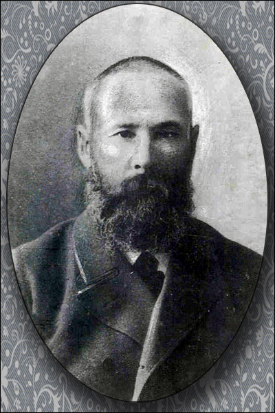 Mikhail Ivanovich (Yanovich) Jankowski (Polish: Michał Jankowski; September 24, 1842 (18420924), Tykocin - October 10, 1912, Sochi) - entrepreneur, naturalist and plant breeder, a representative of the Polish noble family of News-Jankowski.